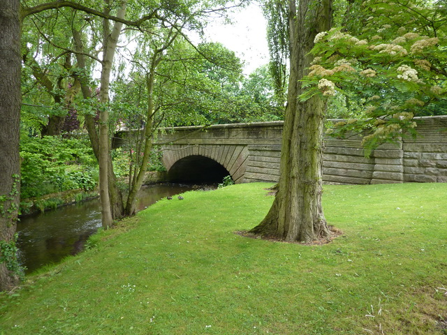 Harewood Road bridge over Keswick Beck